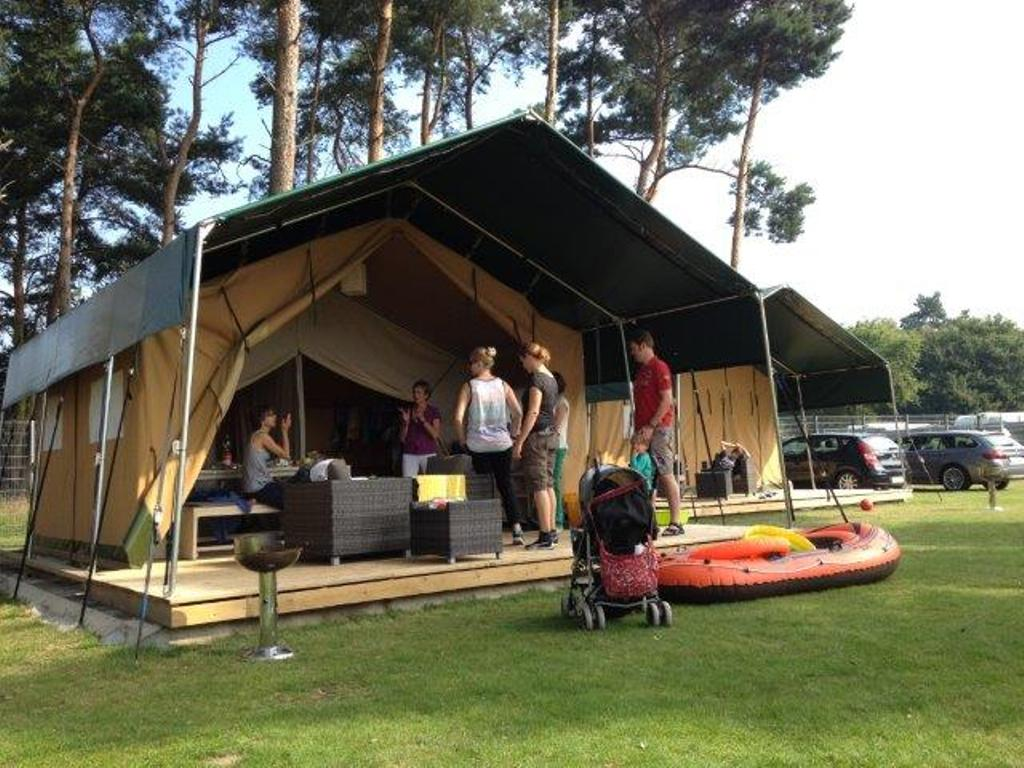 Wettringen (Münsterland):Safari-Zelte auf dem Campingplatz Haddorfer Seen